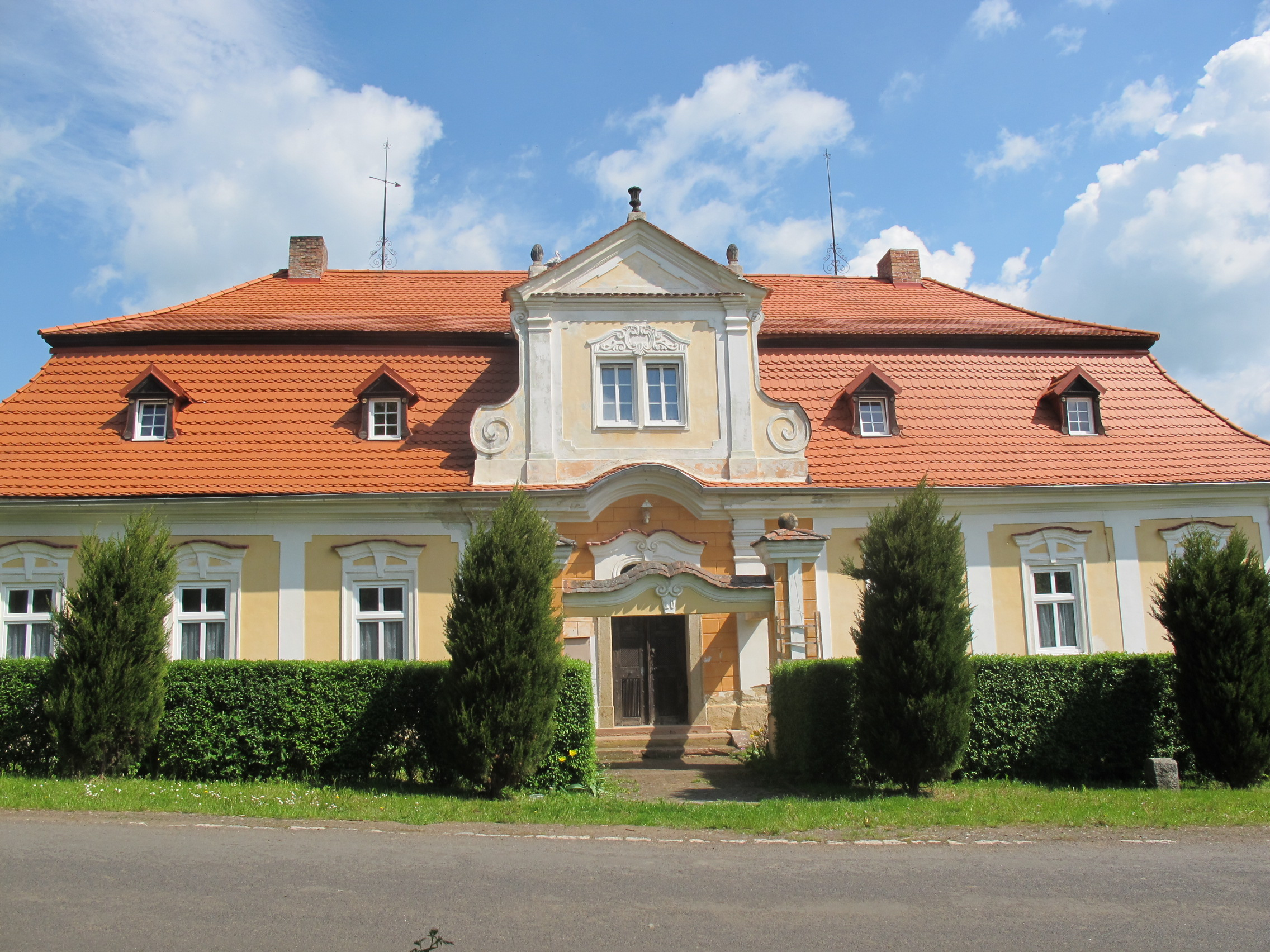 Inn in Libkovice (Louny District)